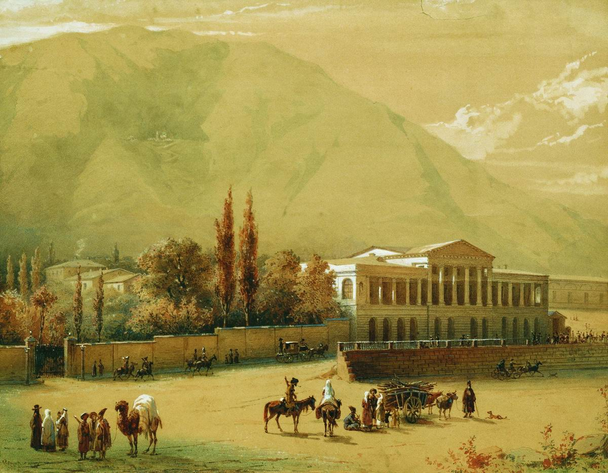 The palace of the Viceroy of the Caucasus in Golovin Avenue, Tiflis (now the Palace of Youth, Rustaveli Avenue, Tbilisi, Georgia)